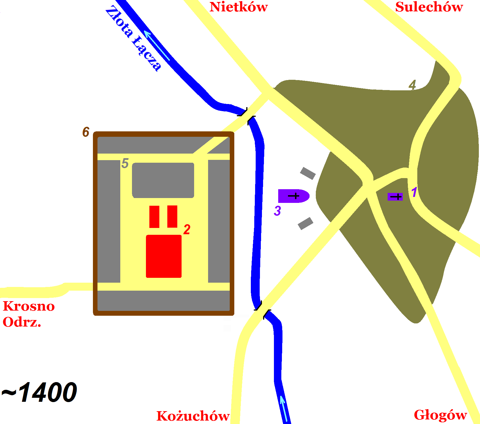 Schematic diagram of Zielona Góra, Poland in the year 1400.